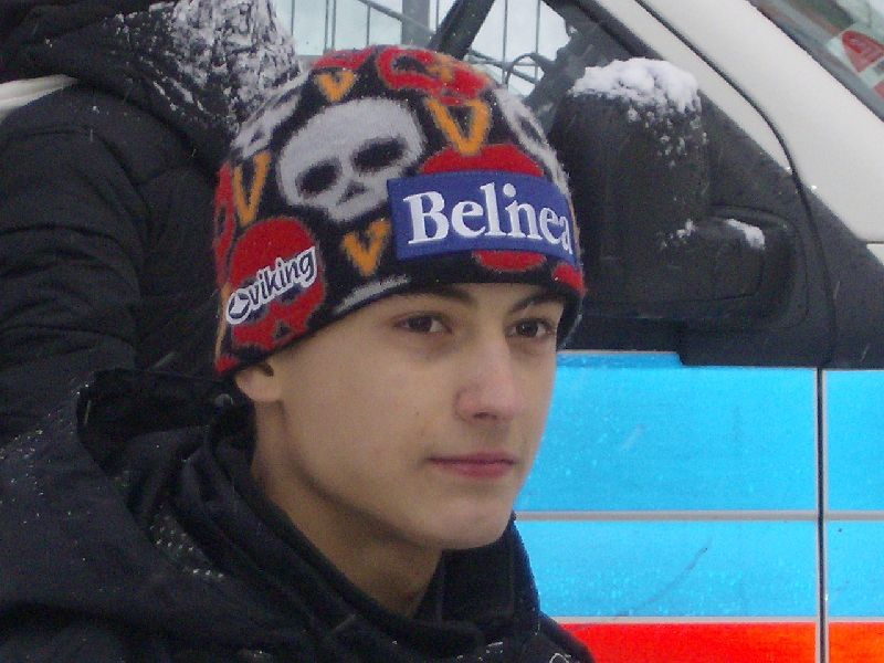 ski jumper Maciej Kot from Poland during the World Cup in Zakopane on 27-1-2008